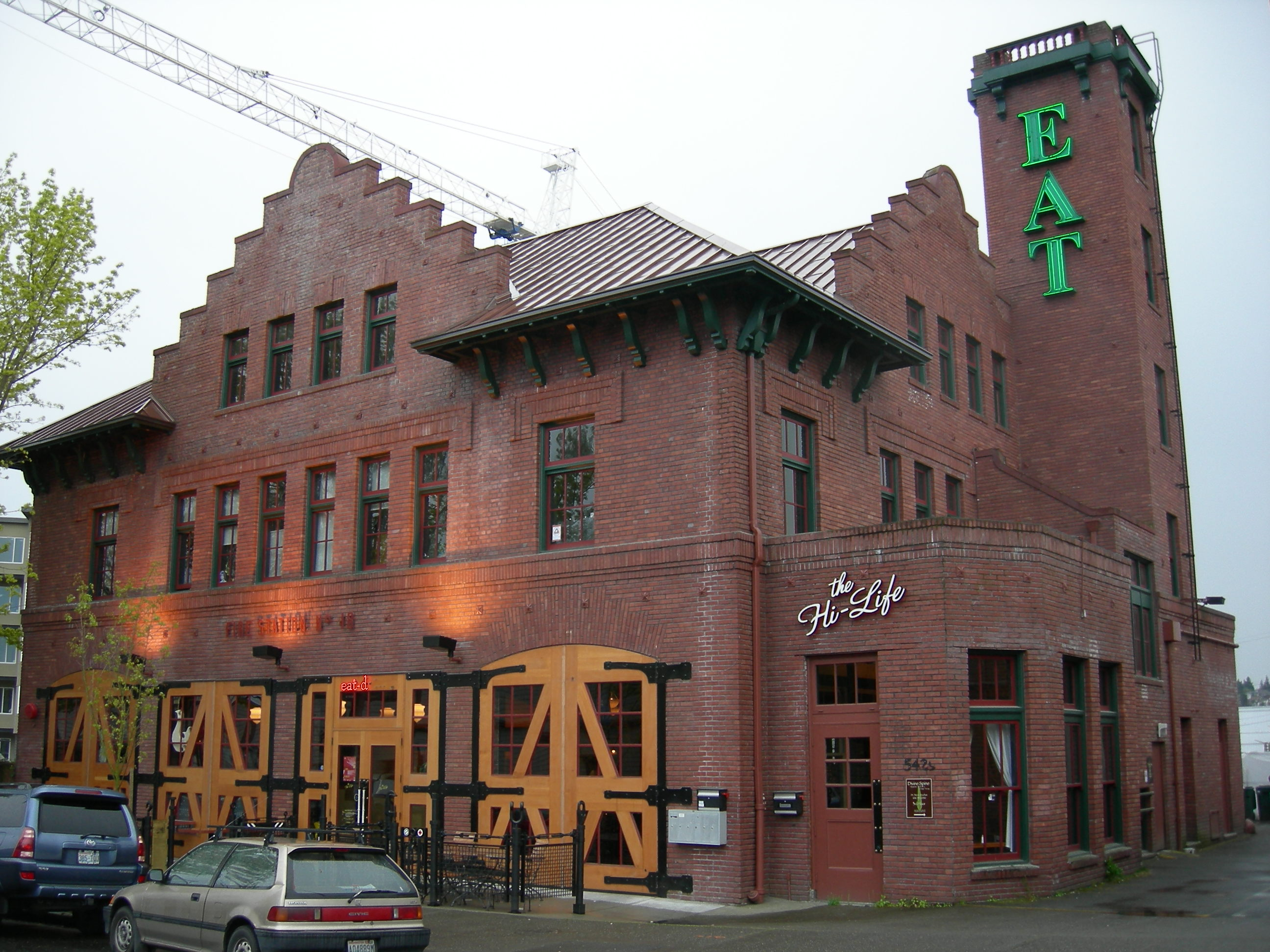 Former Seattle Firehouse No. 18, Ballard, Seattle, Washington, now a restaurant and bar.